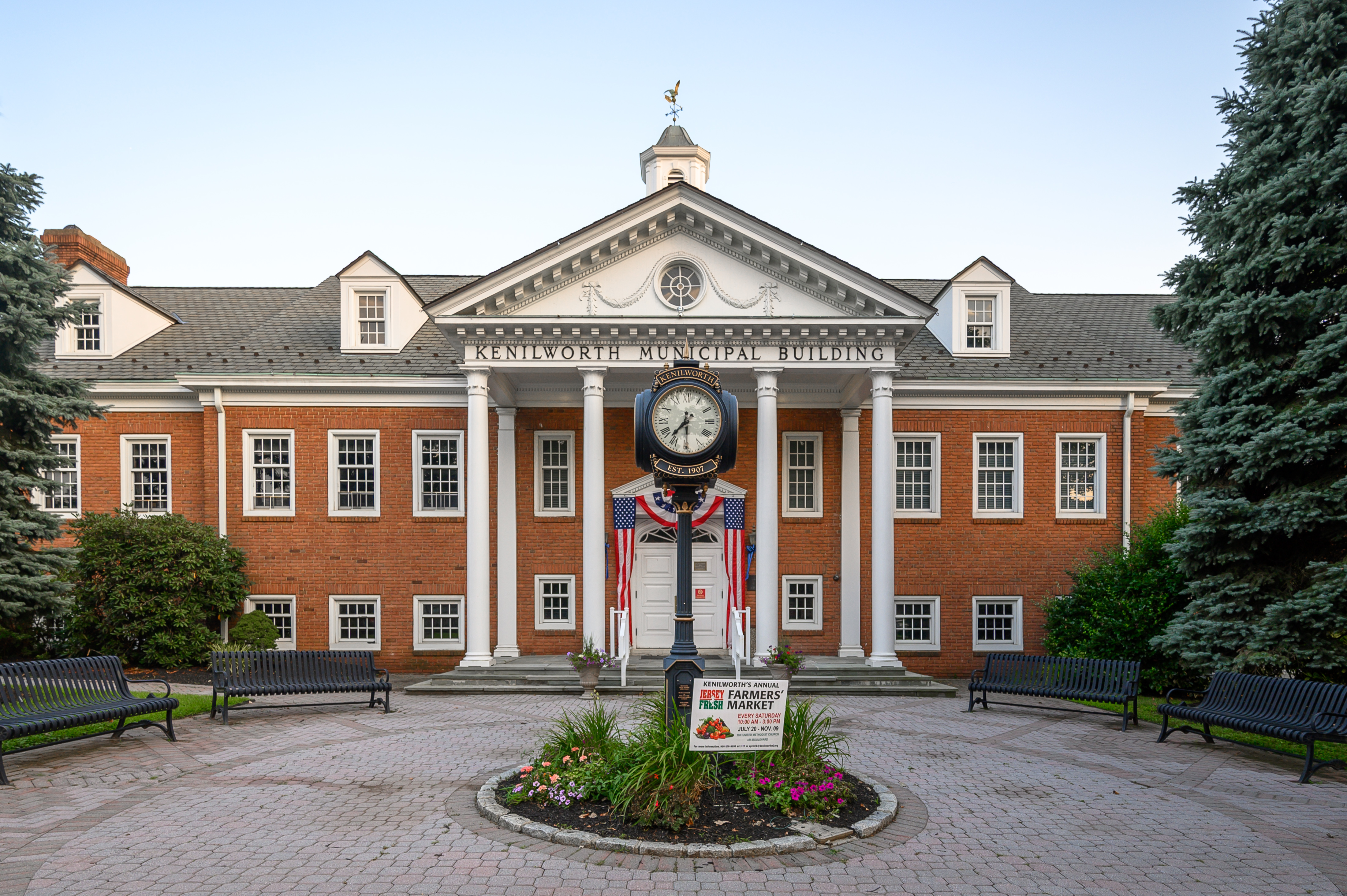 Kenilworth Municipal Building - 567 Boulevard, Kenilworth, NJ 07033